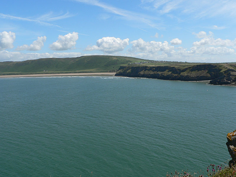 Rhossili Down, Gower, Wales, UK